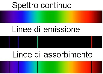 Spectral lines. Adapted from the version in Italian.